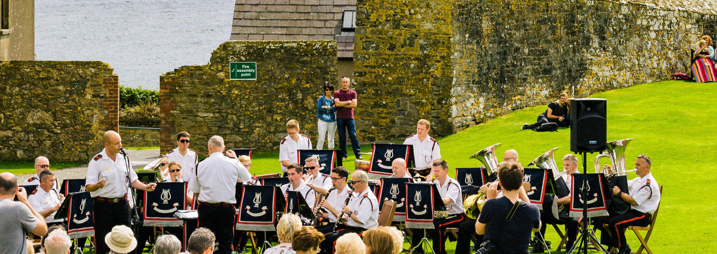 The Army Band of the 1st Brigade (who are based in Cork) playing at Charles Fort.